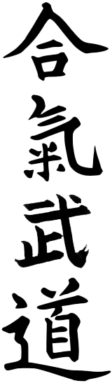 The Japanese characters for the word "Aikibudo"